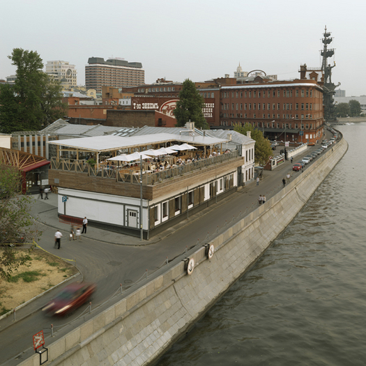 photo of the Strelka Institute for Media, Architcture and Design